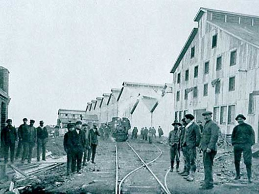 Workers at Bories Cold-storage plant, 1920.